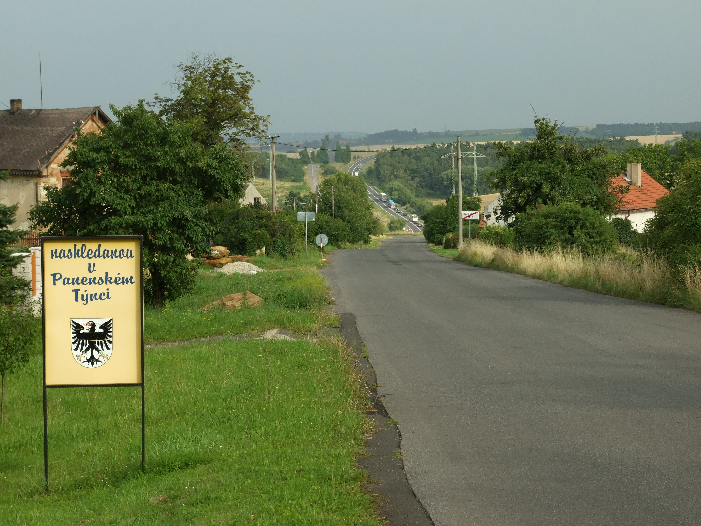 Southern edge of the town of Panenský Týnec, Ústí nad Labem Region, CZ